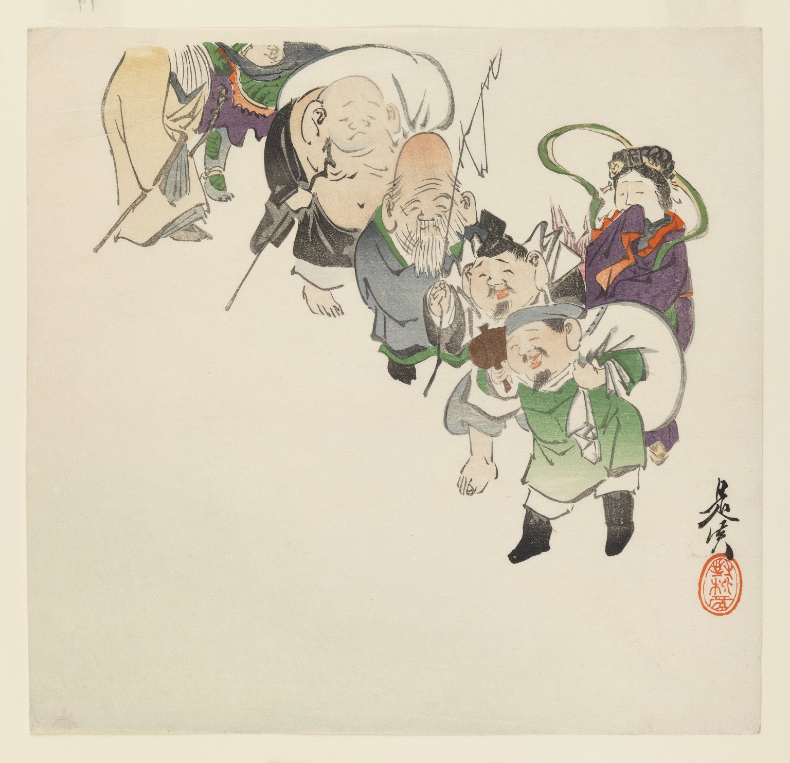 Period: Meiji Period Collections:Asian Art Rights Statement: No known copyright restrictions